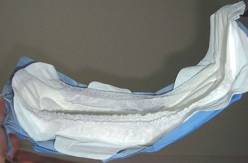 napkin